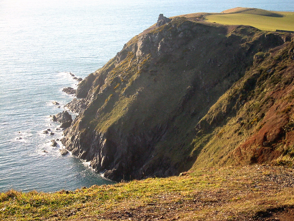 A view towards Bolt Tail which is a headland in Devon, England by Roger Lapthorn.